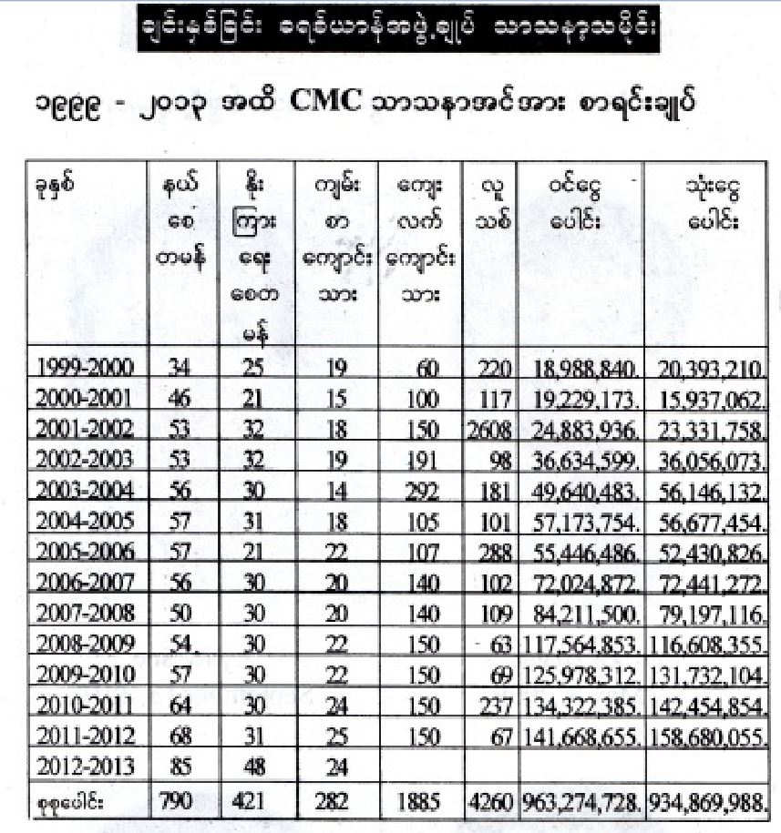 Chin Baptist Convention - CMC Mission Expenditure (1999-2013)